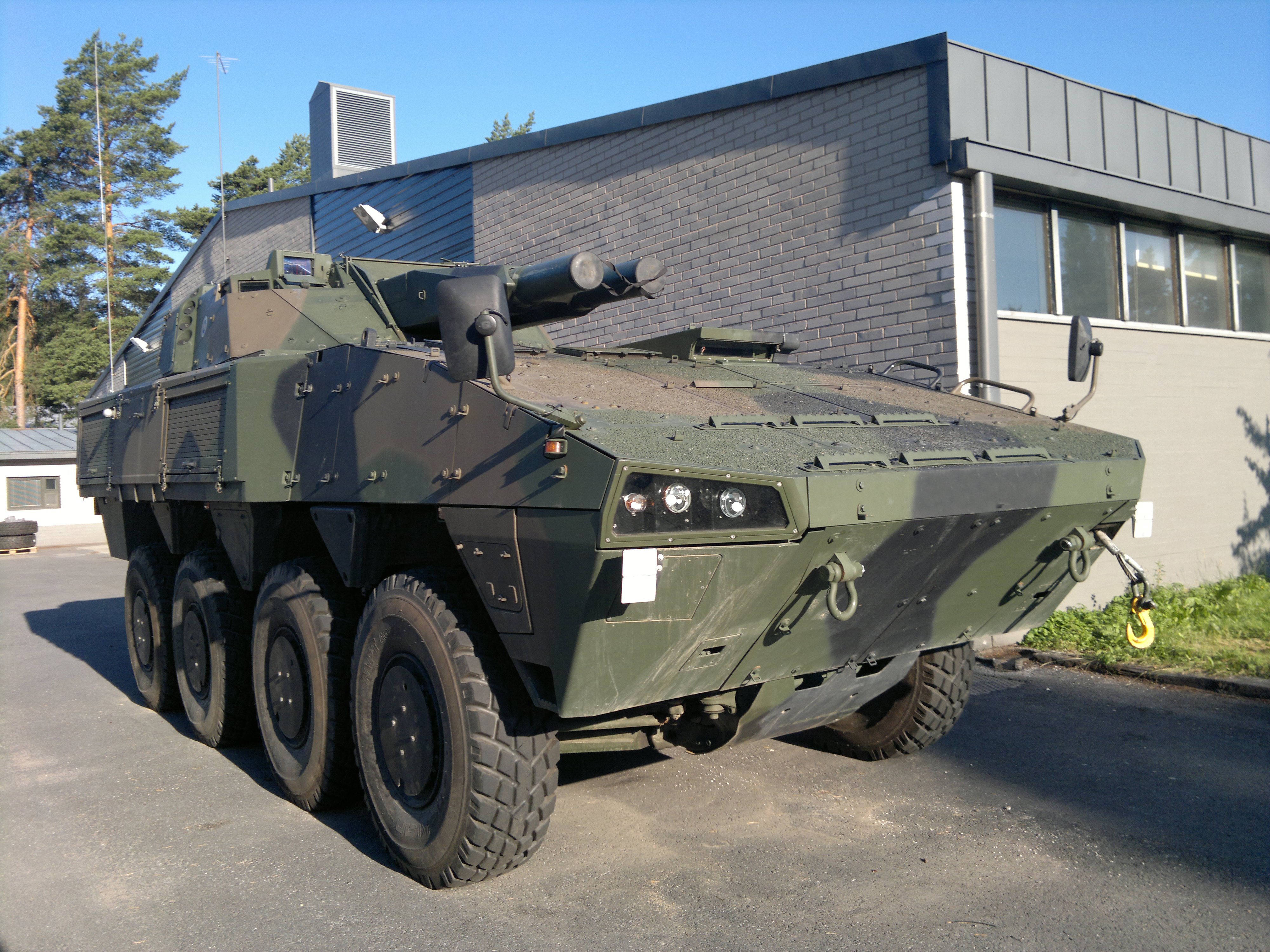 Patria AMV.